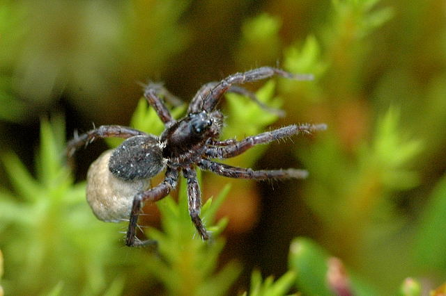 female Pardosa sphagnicola with egg sac, from Commanster, Belgian High Ardennes .